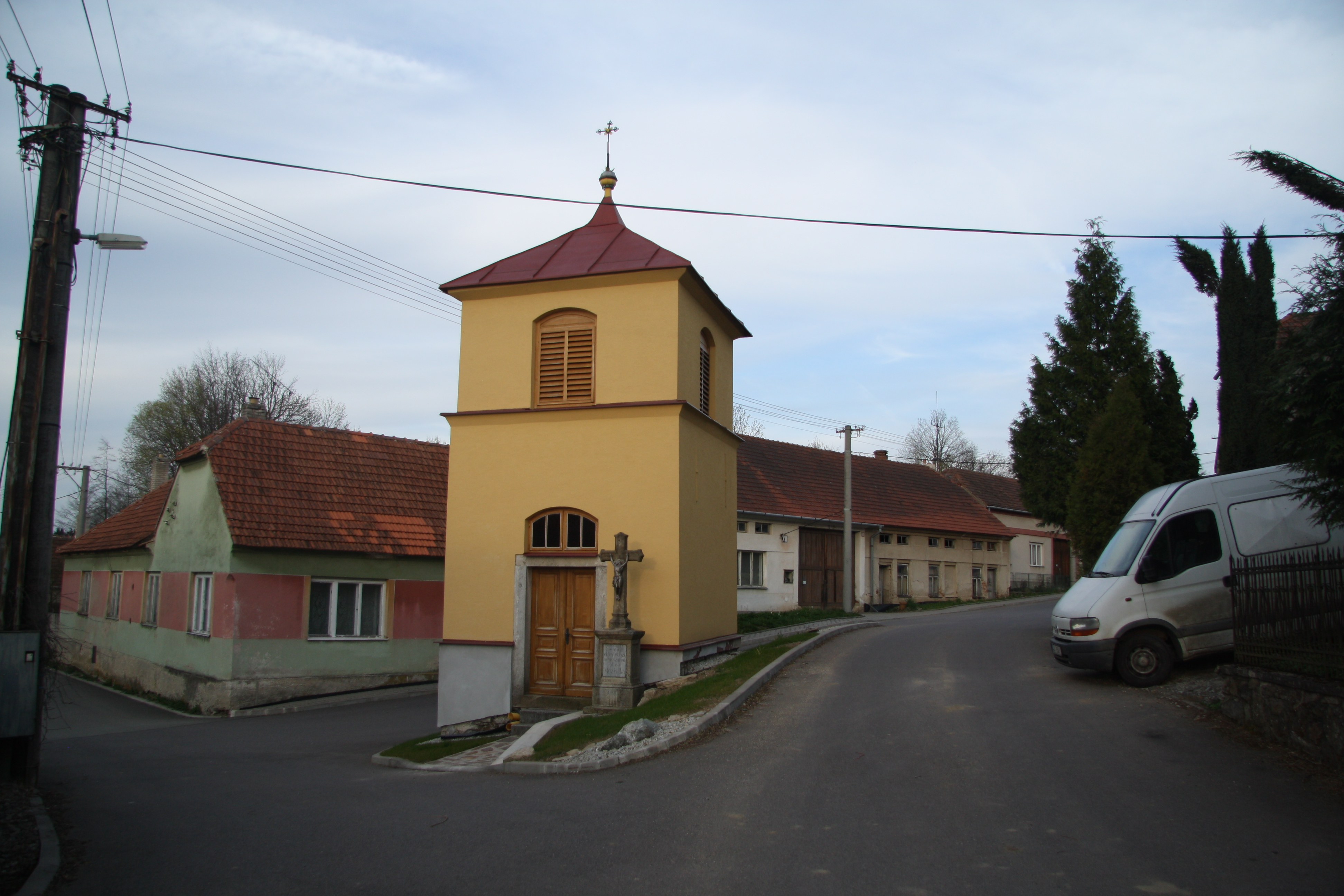 Center of Meziříčko, Třebíč District.